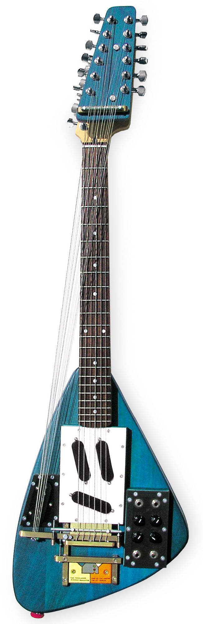 Guitar for Lee Ranaldo of Sonic Youth, built by me